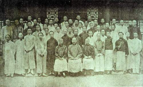 Boxer Rebellion Indemnity Scholarship recipients of 1909